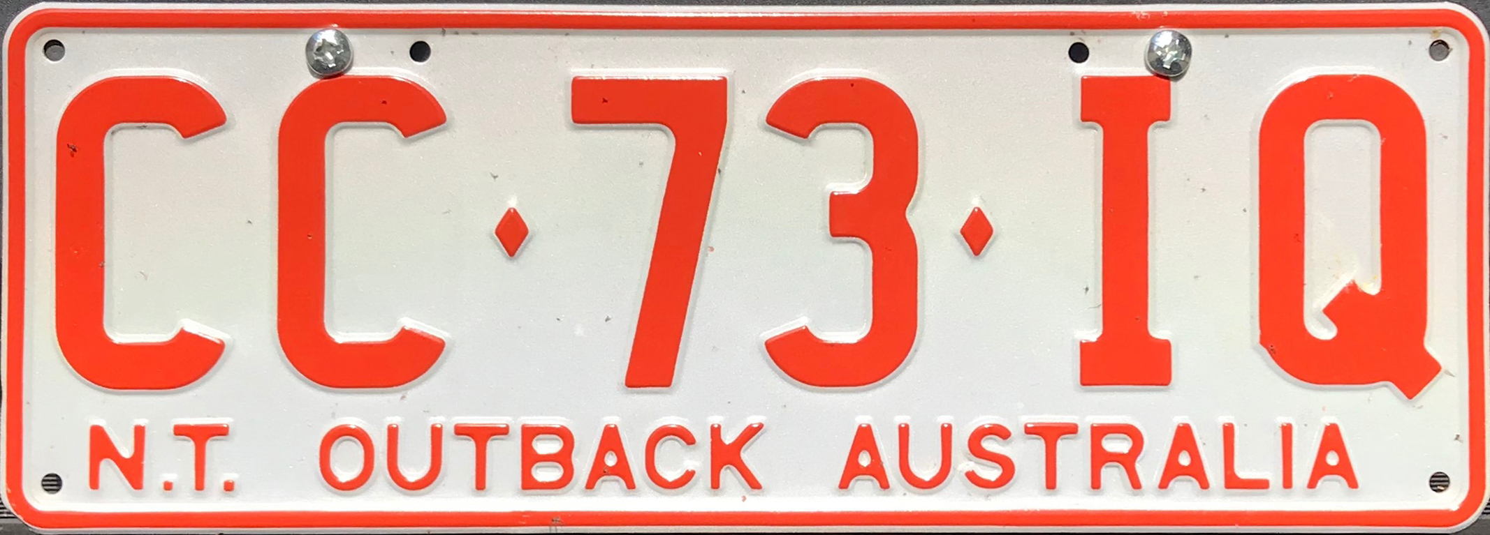 General issue vehicle registration plate of the Northern Territory, standard size, CC-73-IQ, Outback Australia. Registered to a blue Toyota RAV4